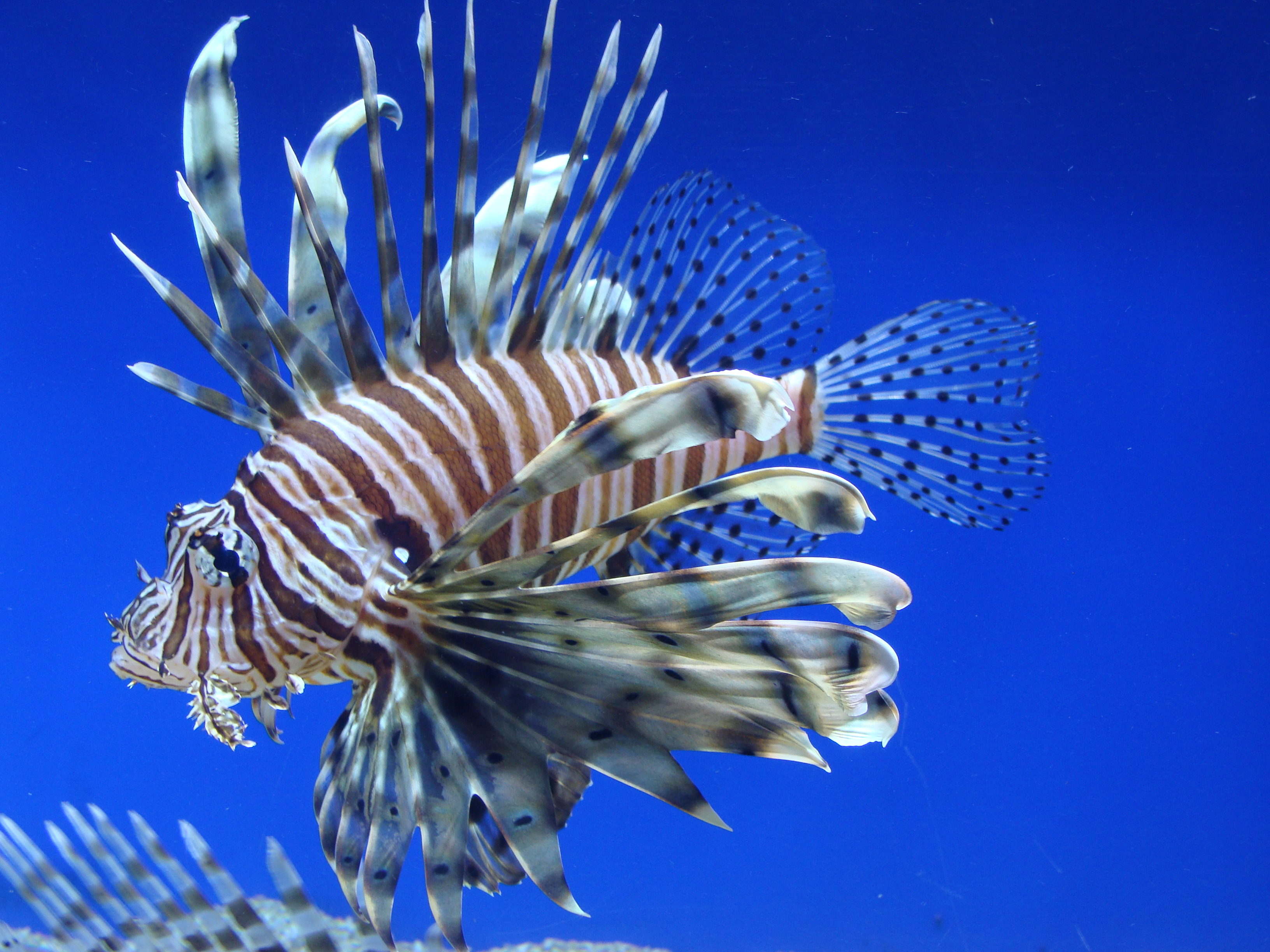 Pterois volitans (Red lionfish) in Sala Humboldt of Aquarium Finisterrae (House of the Fishes), in Corunna, Galicia, Spain.